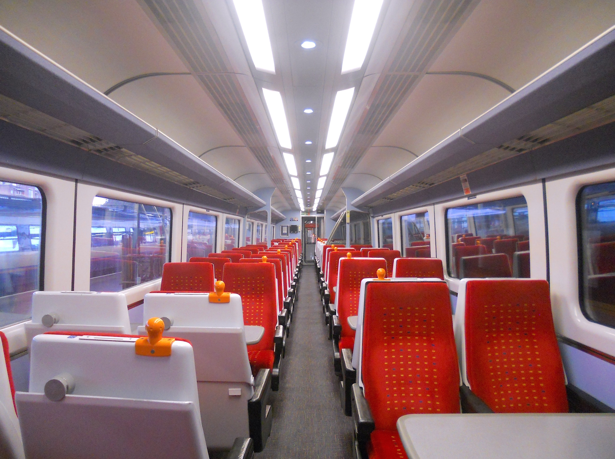 The interior of an East Midlands Trains refurbished Mark 3 Trailer Standard